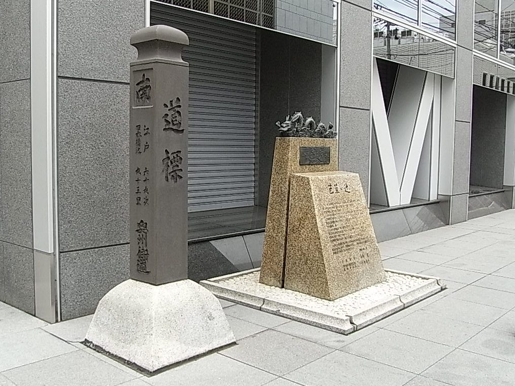 The sign pillar at the old center of Sendai, at the northwest corner of Bashō no Tsuji in Omachi 1 chōme, Aoba-ku, Sendai City, Miyagi Prefecture, Japan. Right tow letters are Road (道) and Sign (標). Left letters says "SOUTH: To the Nihonbashi of Edo, 69 post-towns, 93 ri (about 350 kilometers), via Ōshū Kaidō".